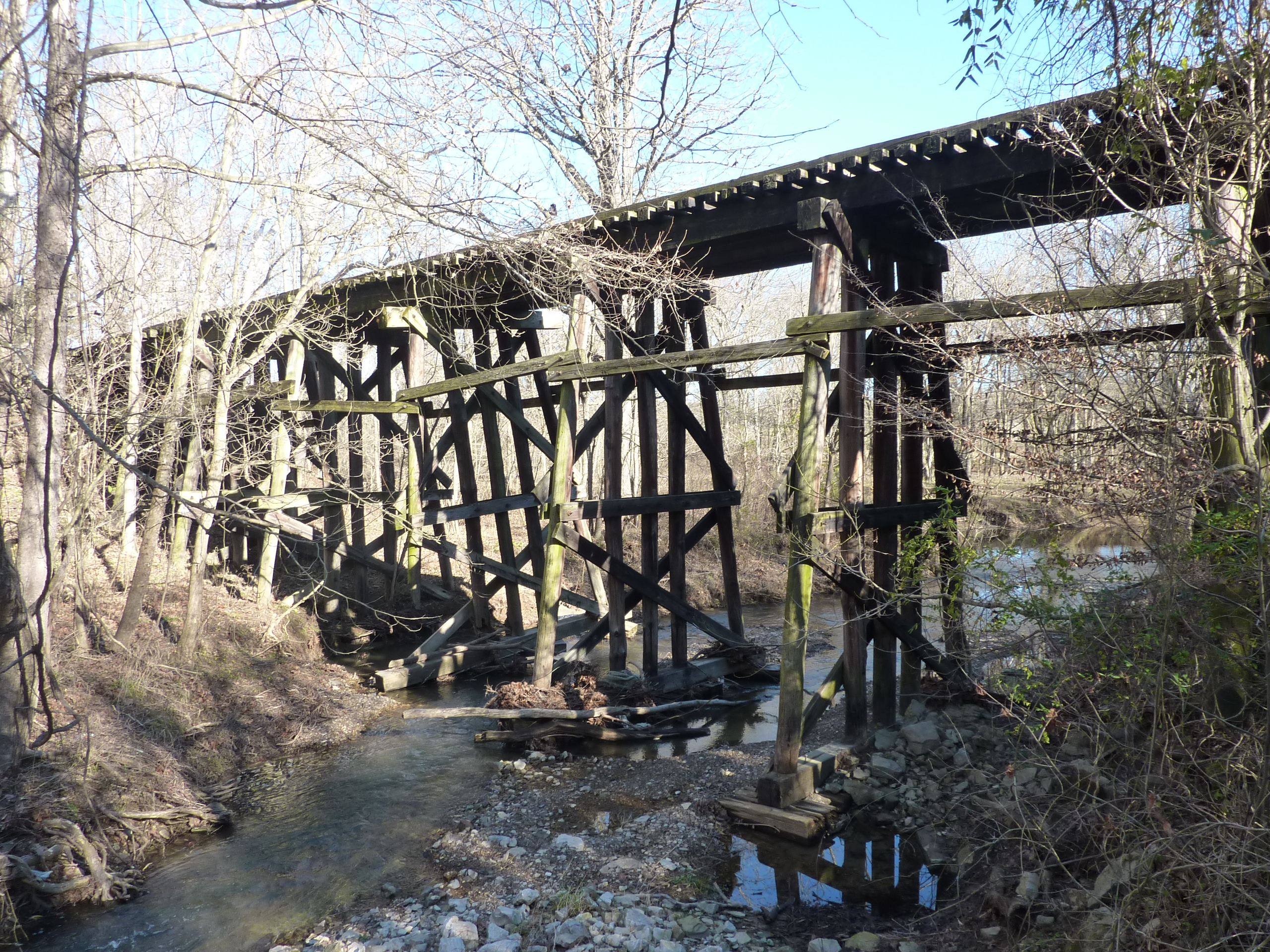 A wooden railway trestle (and adjacent embankment) on an abandoned railway line running parallel to S. Victor Pike in Perry Township, Monroe County, Indiana. The photos are taken somewhere near Victor Pike's crossing with W. Tramway Rd. A metal tag on a structural elment has the brand name "Osmose" (maker of treated wood) and the date 1980 Object location39° 05′ 30″ N, 86° 33′ 42″ W